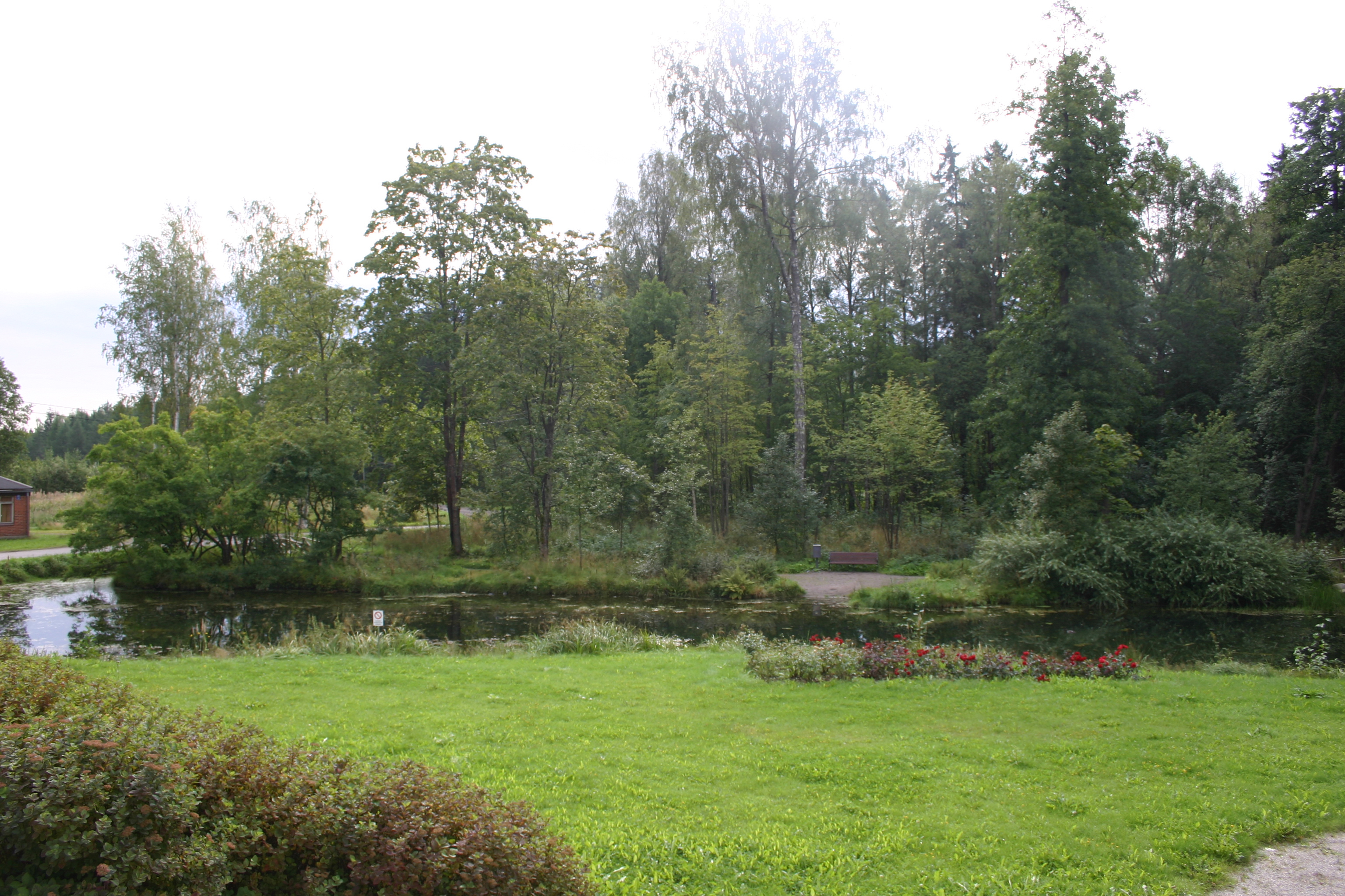 A spring at Rajamäki, Nurmijärvi, Finland